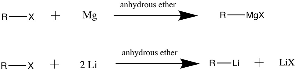 Corrected version of insertion reaction picture